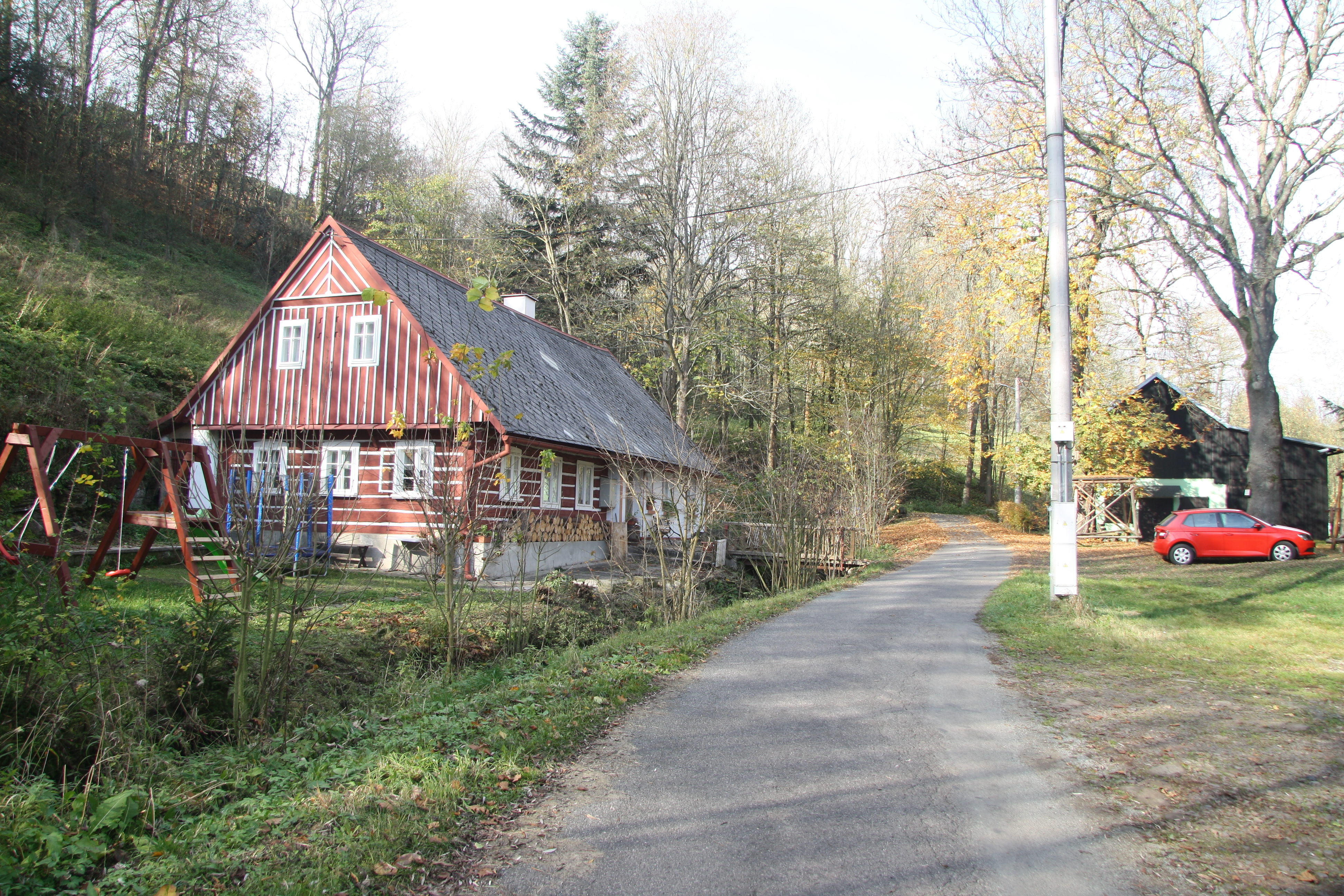 Center of Skalka, Česká Metuje, Náchod District